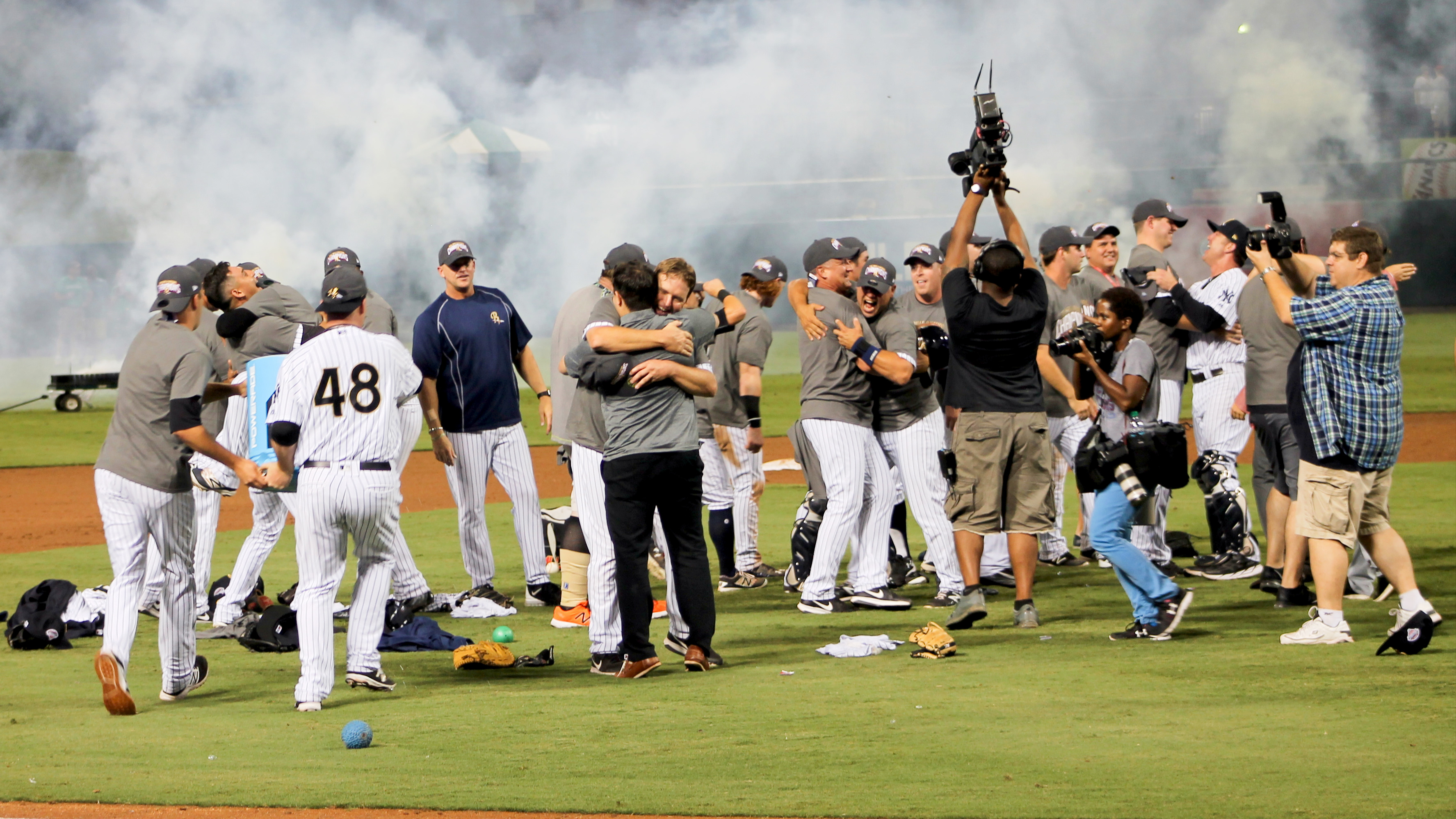 The Scranton/Wilkes-Barre RailRiders celebrate after winning the 2016 Gildan Triple-A National Baseball Championship.